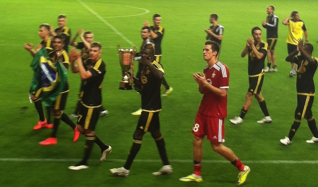 Sheriff Supercup 2015 (crop2)